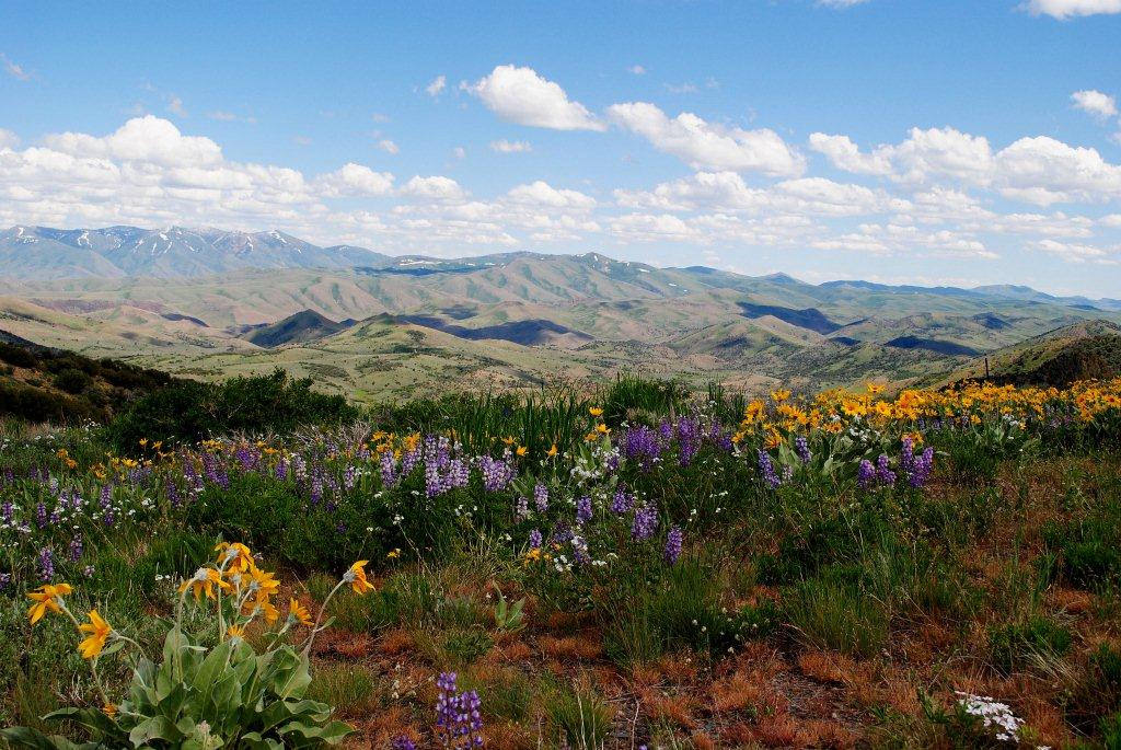 Sunflower Flats, BLM Elko District Photo credit: Shanell Owen